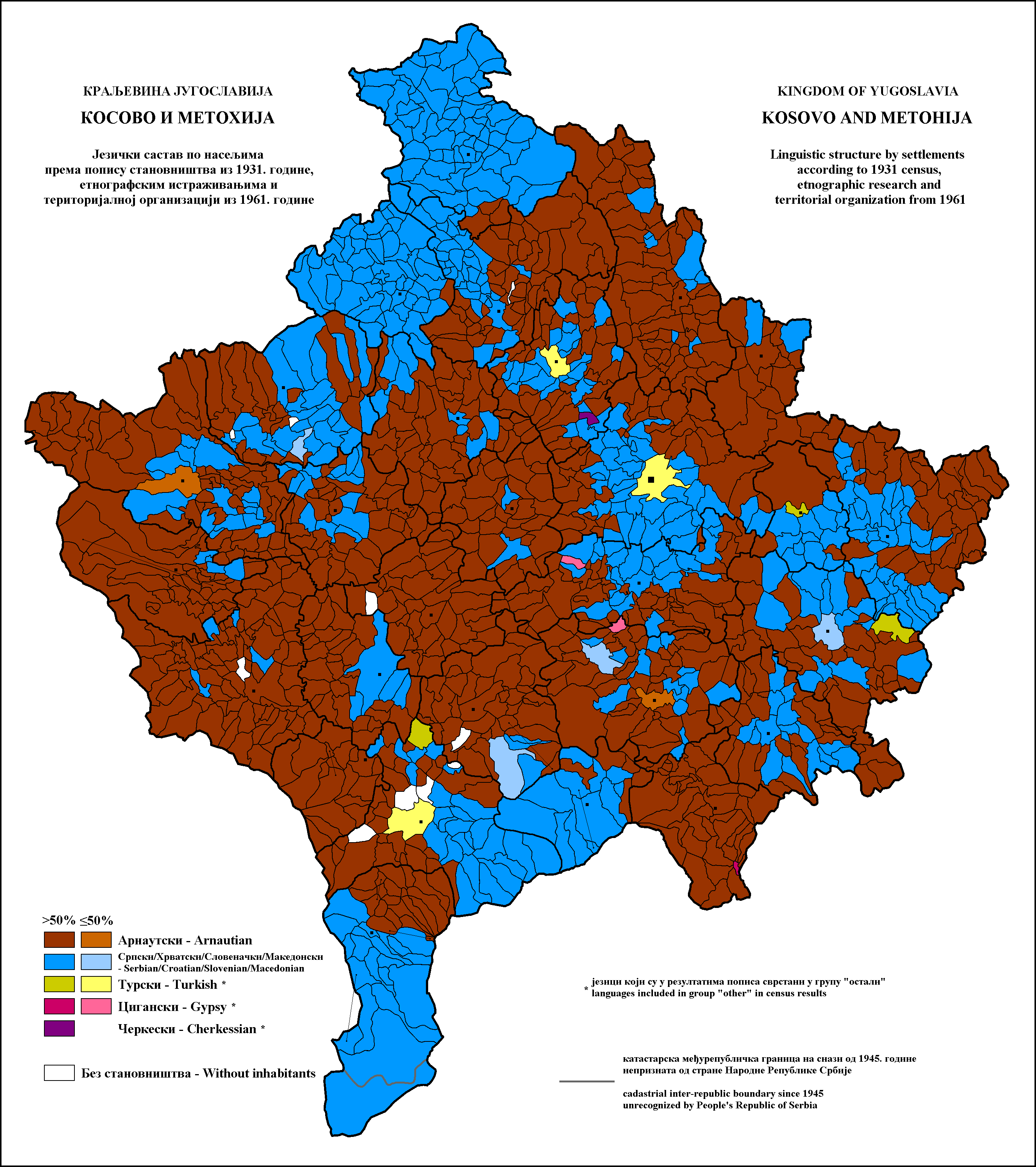 Linguistic structure of Kosovo and Metohija by settlements 1931 (territorial organization from 1961). Authorː Ivan Vukicevic - Српски (ћирилица): Језички састав Косова и Метохије по насељима 1931. године (територијална организација из 1961.). Аутор: Иван Вукићевић